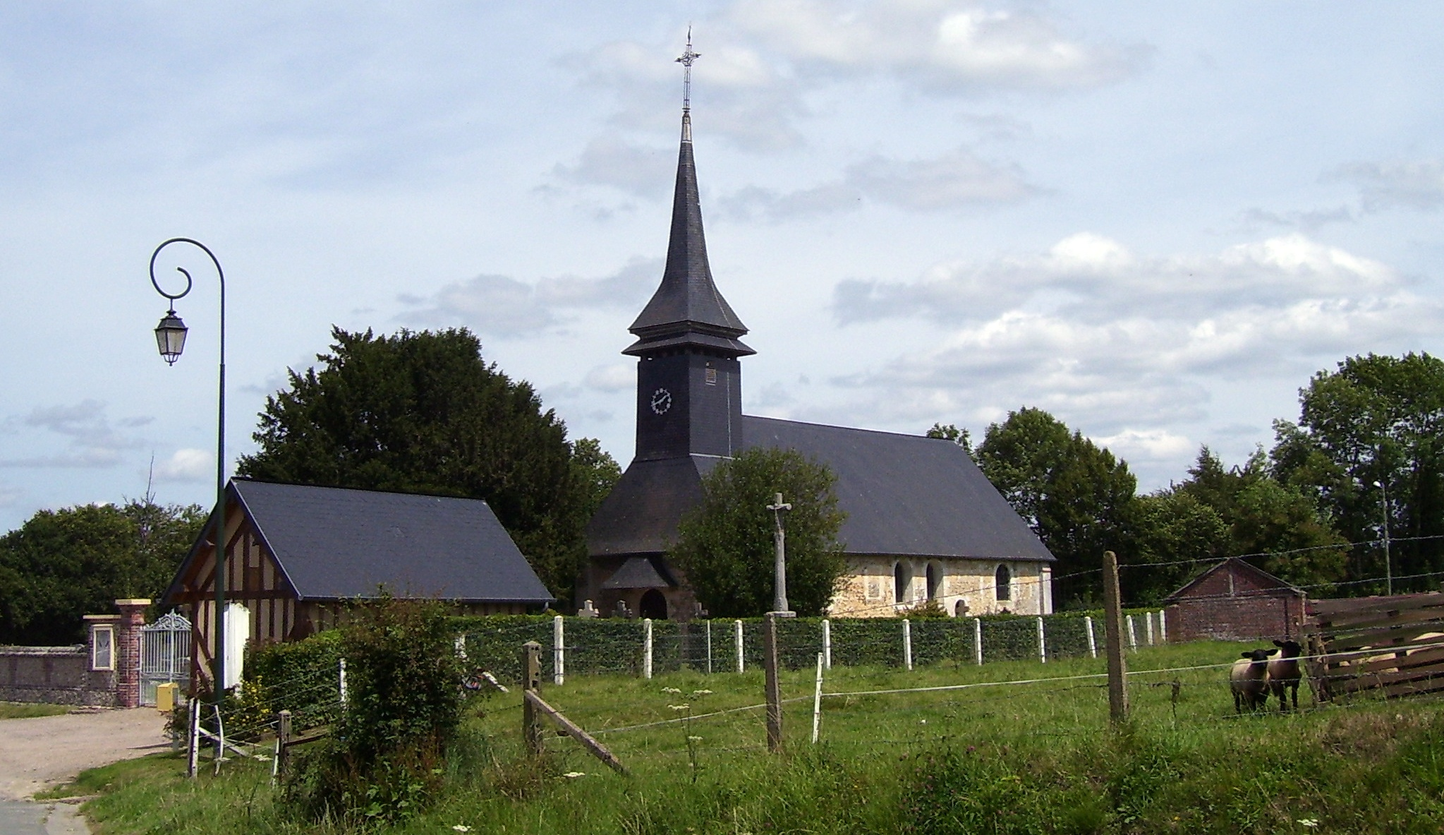 View on the church Notre-Dame of Notre-Dame-d'Épine in Eure, Haute-Normandie, France. It was built in the 16th century.